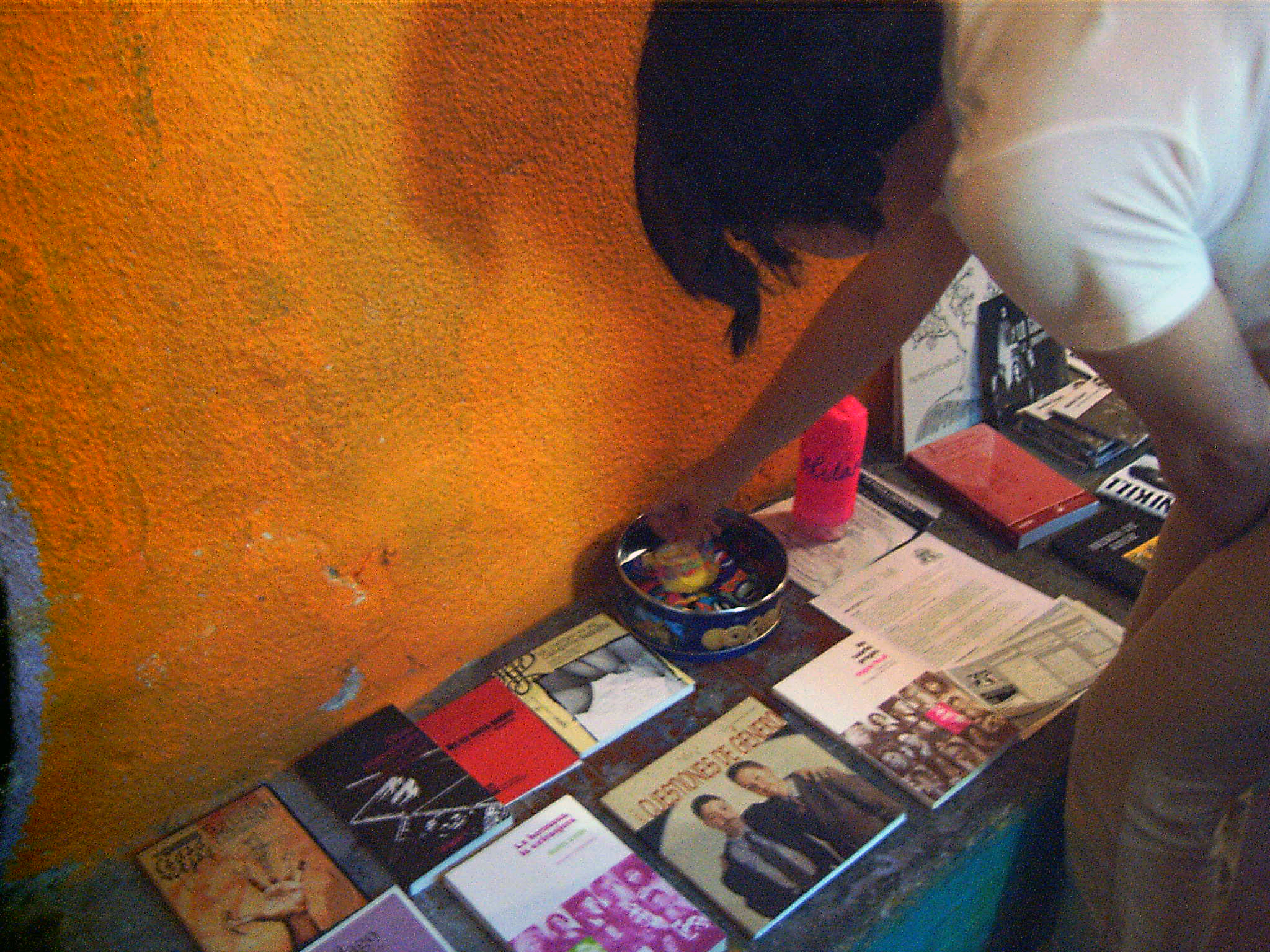 To be used to illustrate Ladyfest articles on wikipedia. Licensed under Creative Commons "by" license